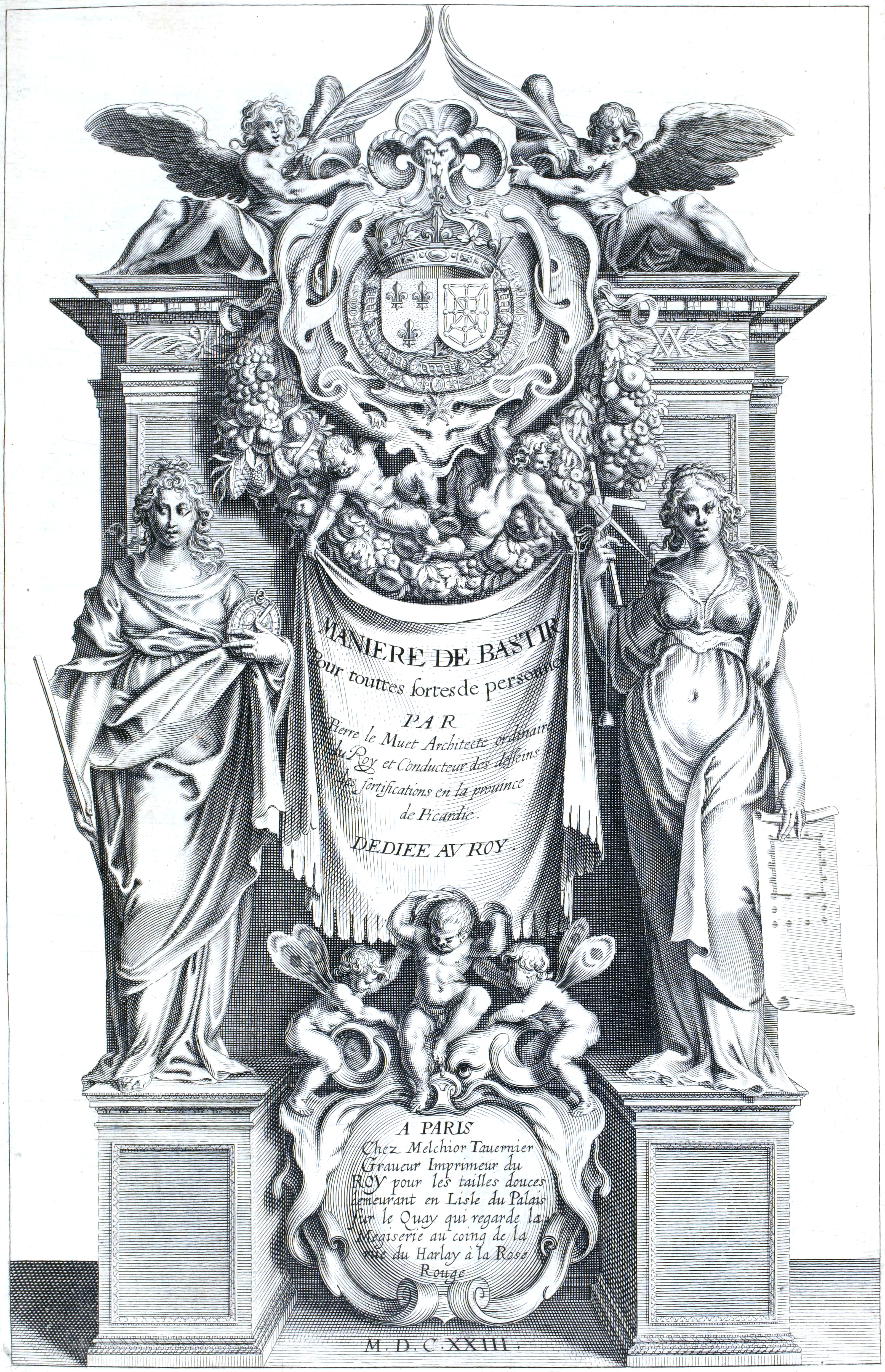 Title page of the 1623 (first edition) of Pierre Le Muet's Manière de bastir, pour touttes sortes de personnes